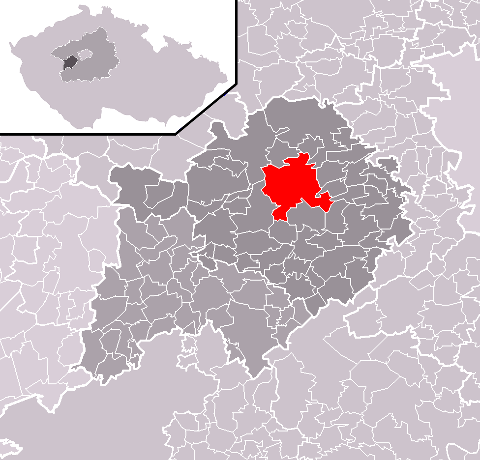 Location of Beroun town within Beroun District and administrative area of Beroun as a Municipality with Extended Competence.